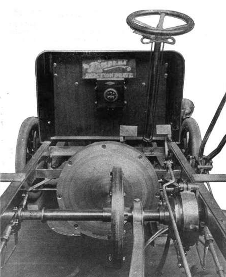 1906 Lambert touring car friction drive transmission